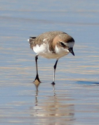 Red-capped Plover, Charadrius ruficapillus, female.